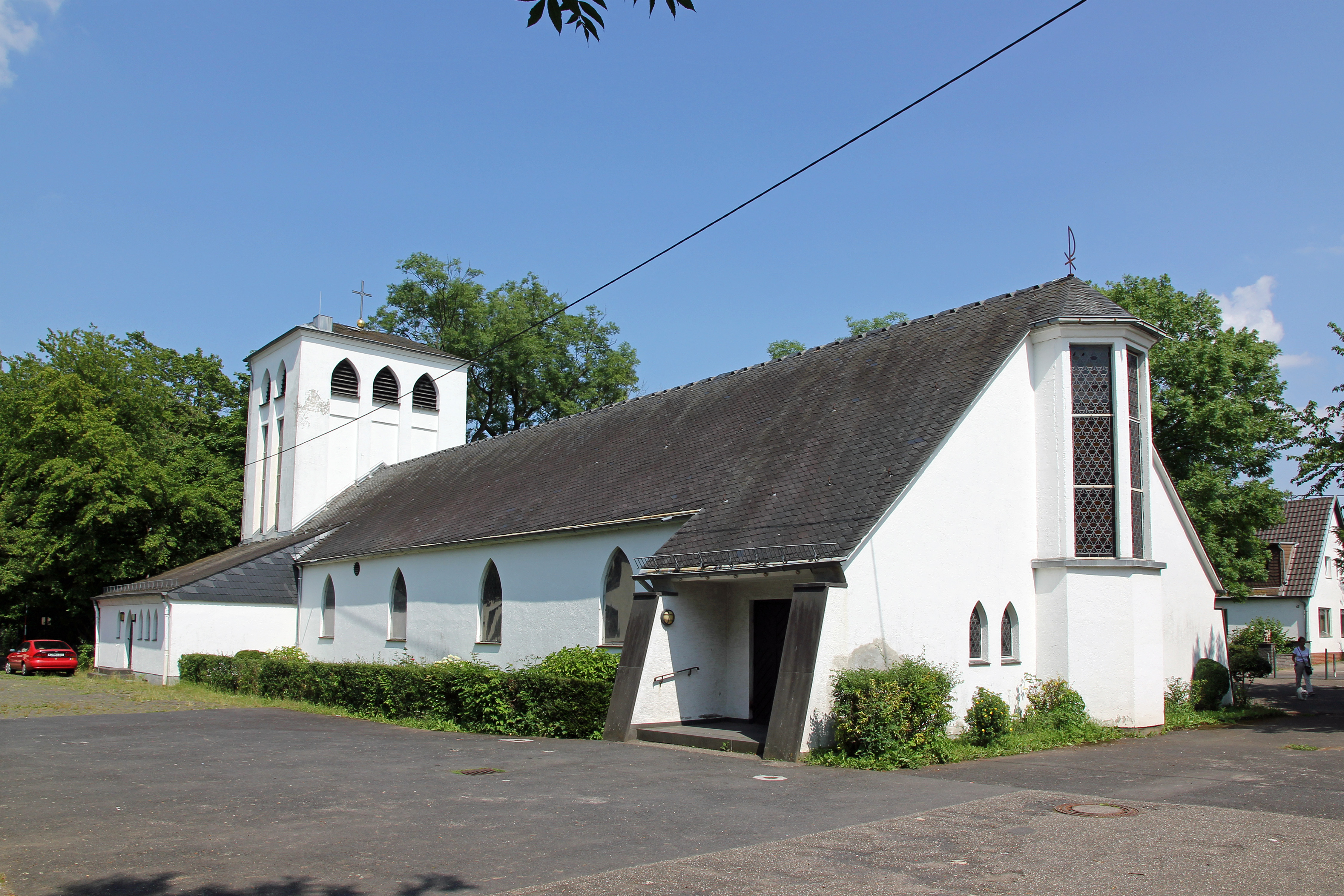 St. Beatus church in Koblenz